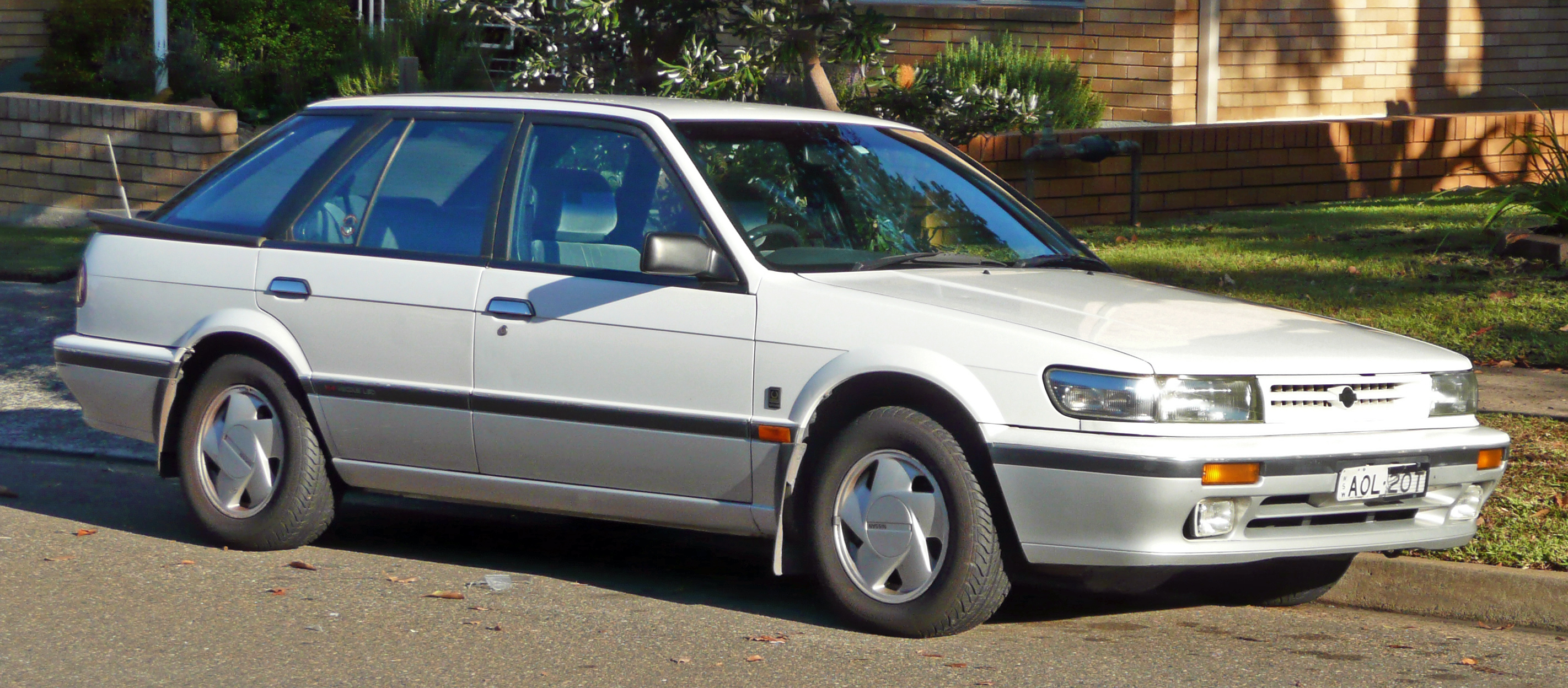 1991 Nissan Pintara (U12) Ti Superhatch hatchback. Photographed in Cronulla, New South Wales, Australia.